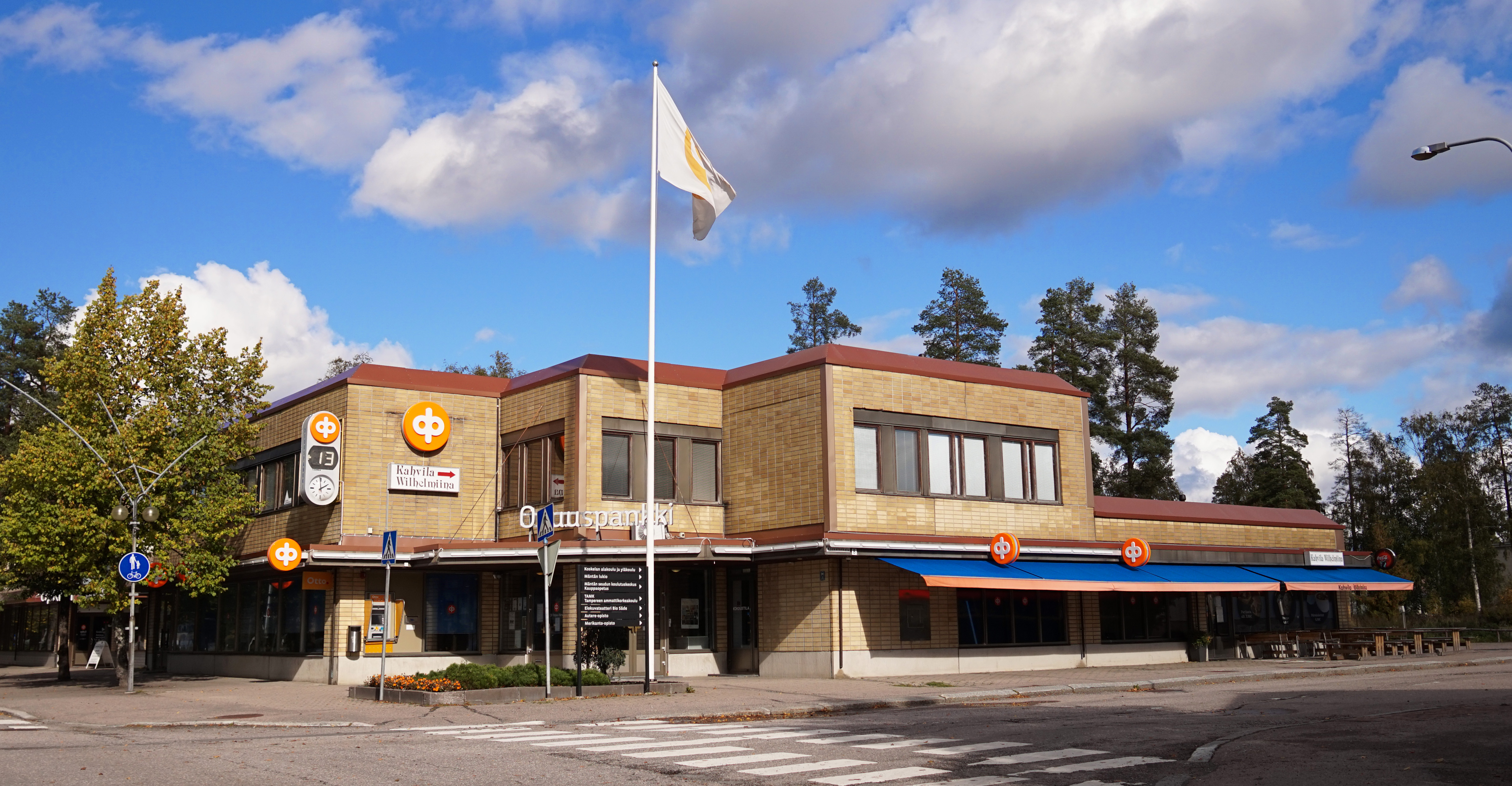 The bank Osuuspankki in Mänttä.